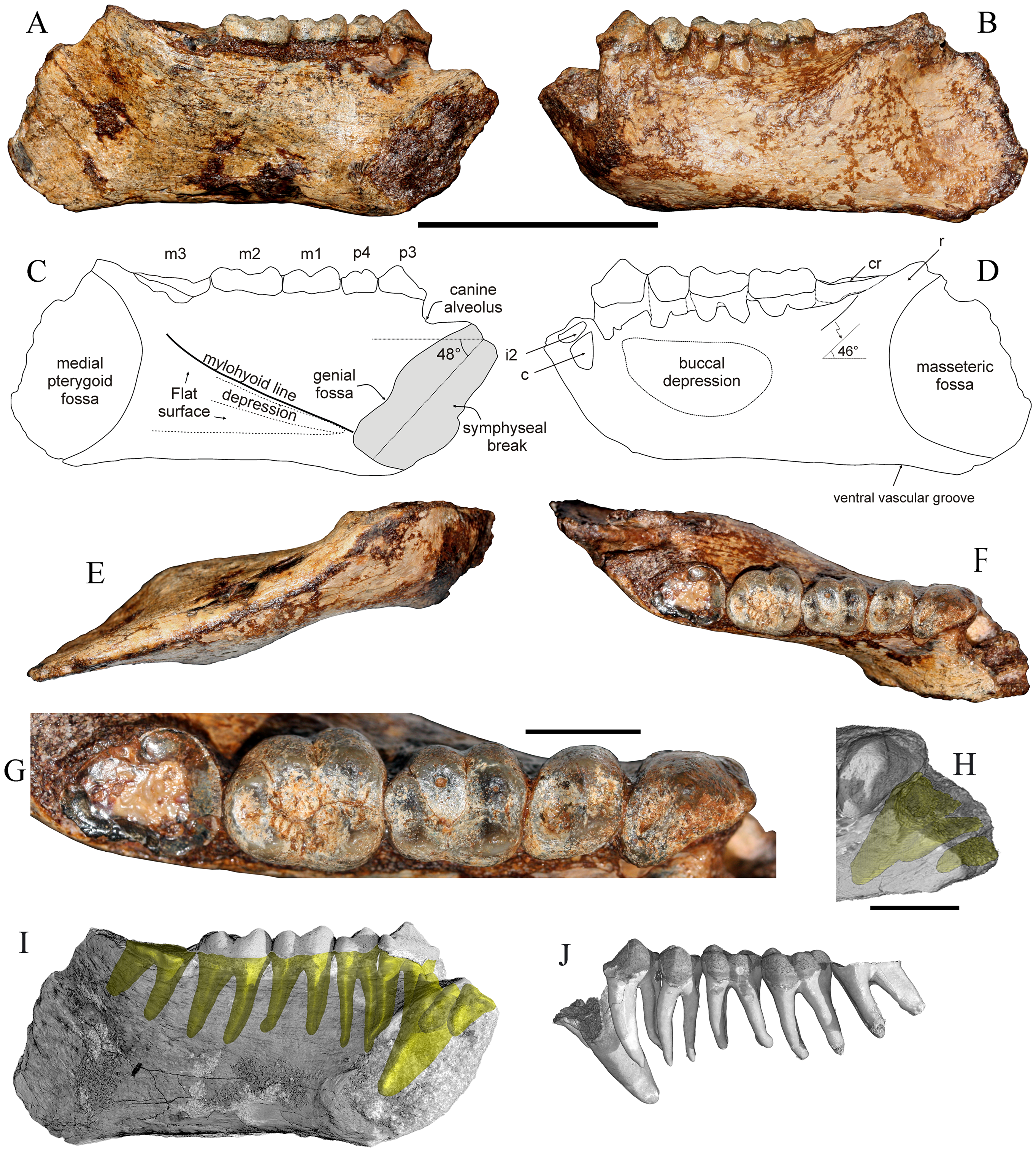 MFI-K171, holotype mandible of Khoratpithecus ayeyarwadyensis n. sp. A: lingual view. B: buccal view. C: interpretive drawing of the lingual view. D: interpretive drawing of the buccal view. E: ventral view. F: occlusal view. G: enlarged occlusal view of the tooth row. H: Detailed view of the anterior region displaying alveoli shadows. Scale bars: 5 cm for A–F and I–J and 1 cm for G–H. Abbreviations: cr, crown remnant; r, ramus. I: lingual view displaying roots shadows for P3-M3 and alveoli shadows for incisors and the canine. J: dental row with virtually extracted roots in buccal view.